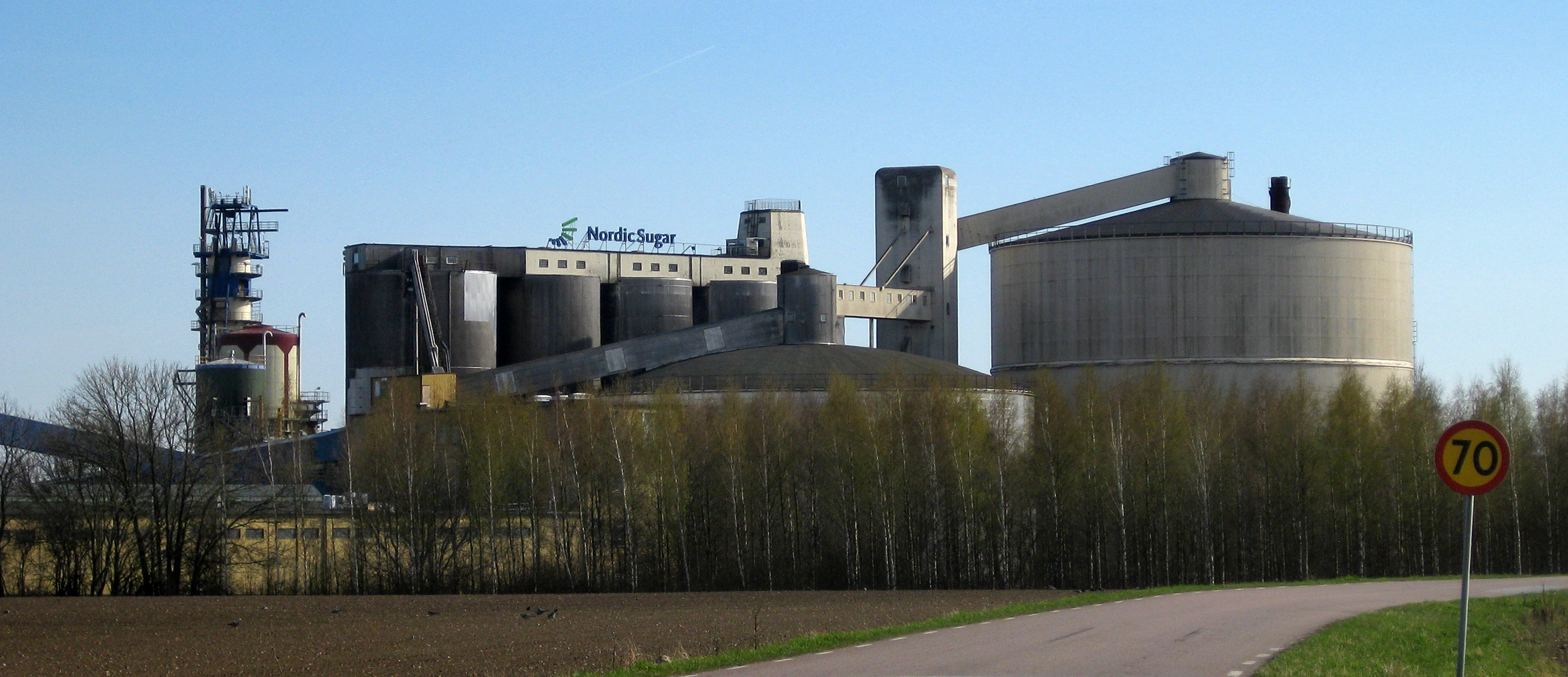 Örtofta sugar factory in Skåne, Sweden